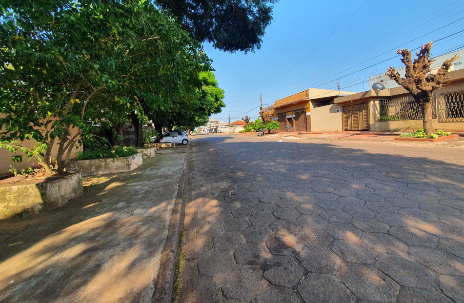 A neighborhood's street in Pedro Juan Caballero, Paraguay